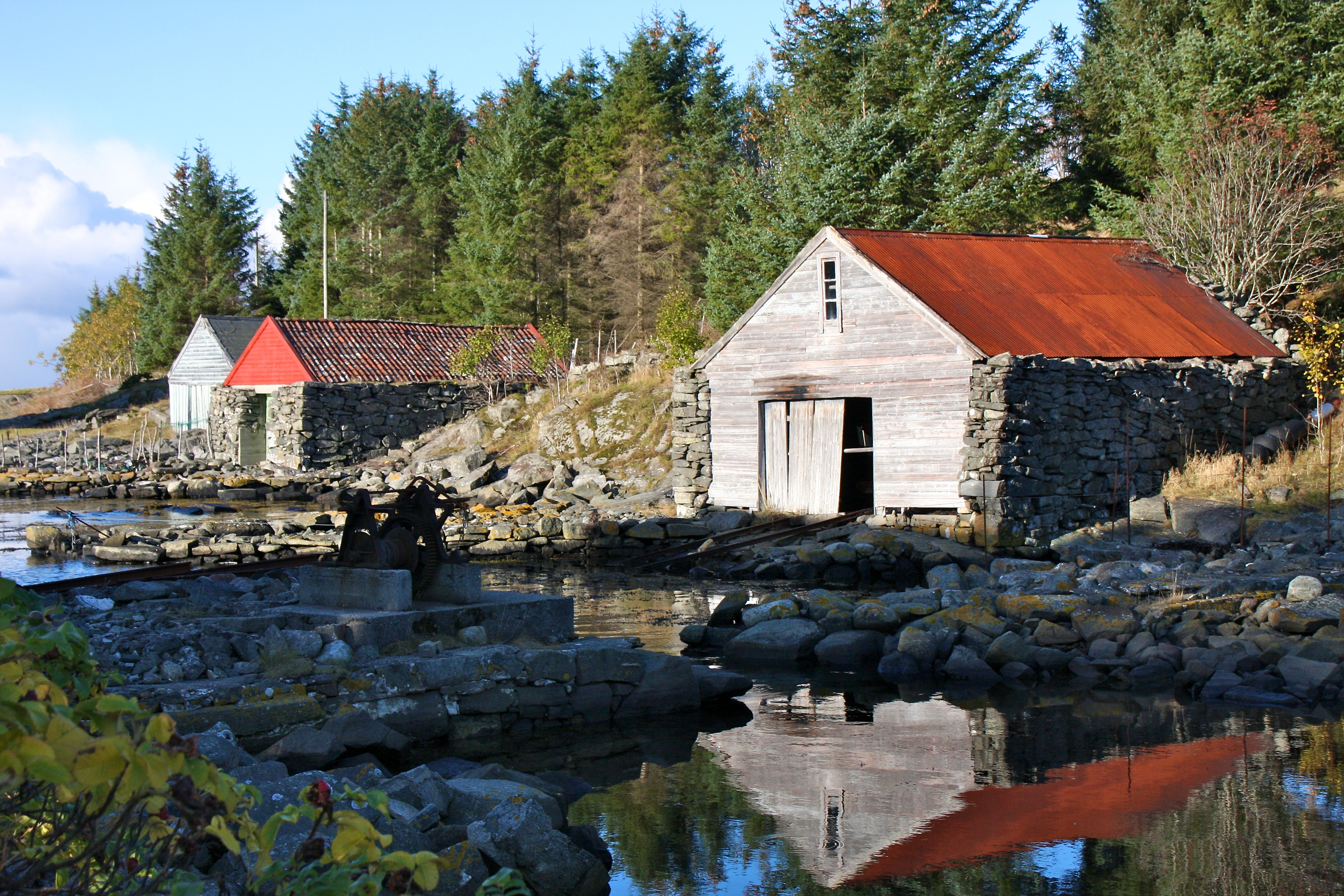 Gulen municipality, Norway.